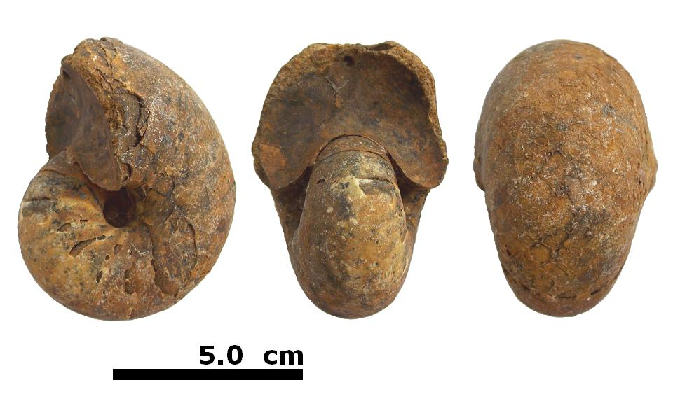 Nautiloid specimen (Cymatoceras) from Madagascar (Tulear region). Not polished.